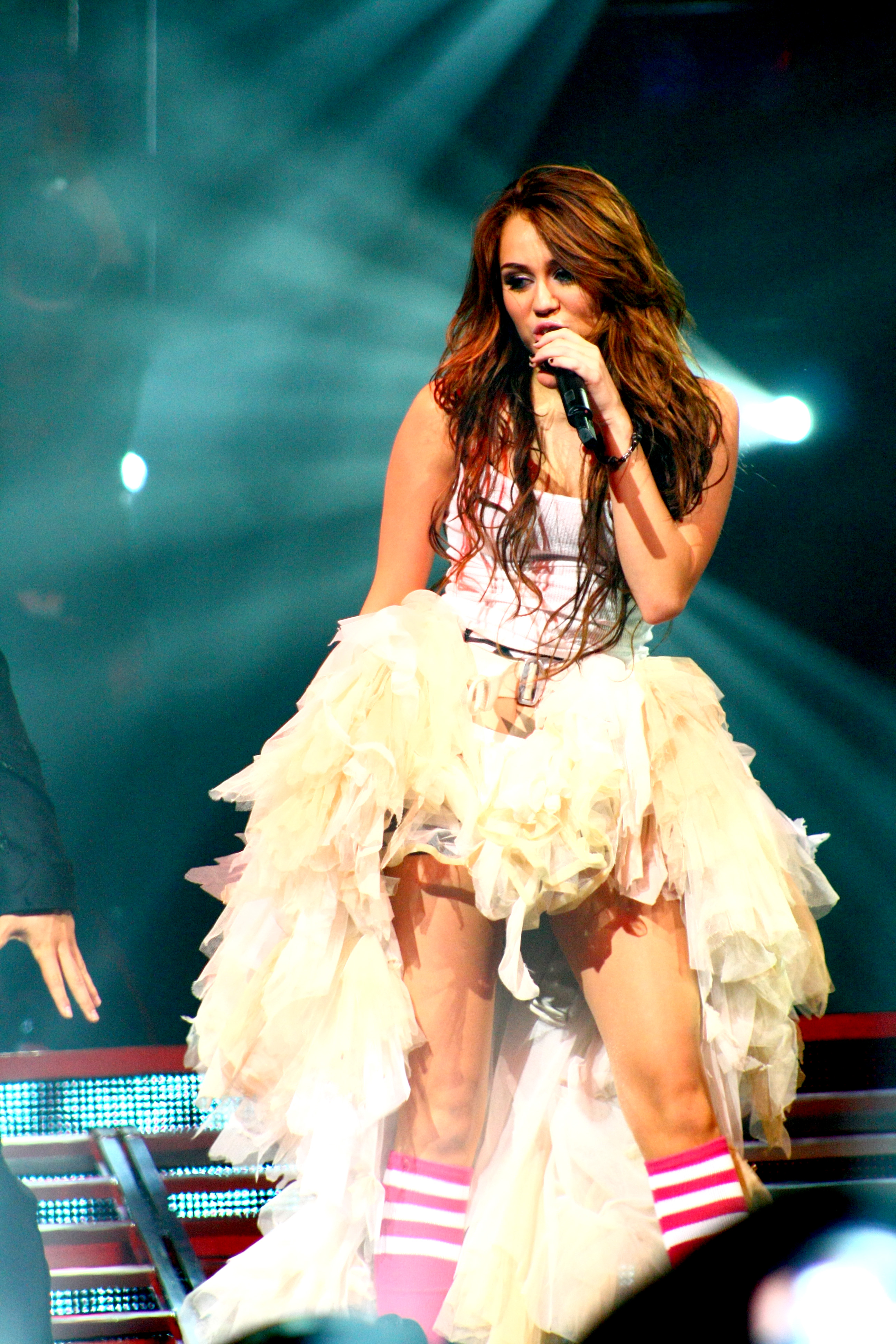 Pop singer Miley Cyrus performs "Fly on the Wall", wearing a white dre with a feathered skirt, on October 6, 2009 at The Palace of Auburn Hills in Aubrun Hills, Michigan, as part of her 2009 Wonder World Tour.